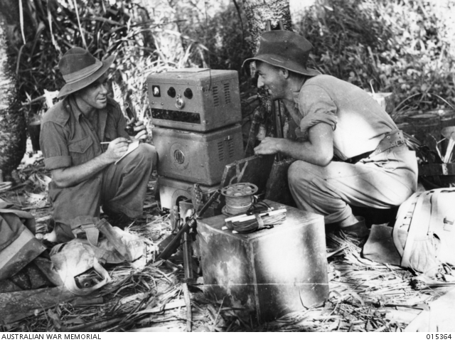 Australian signallers from the New Guinea Air Warning Wireless Company, near Nassau Bay, July 1943